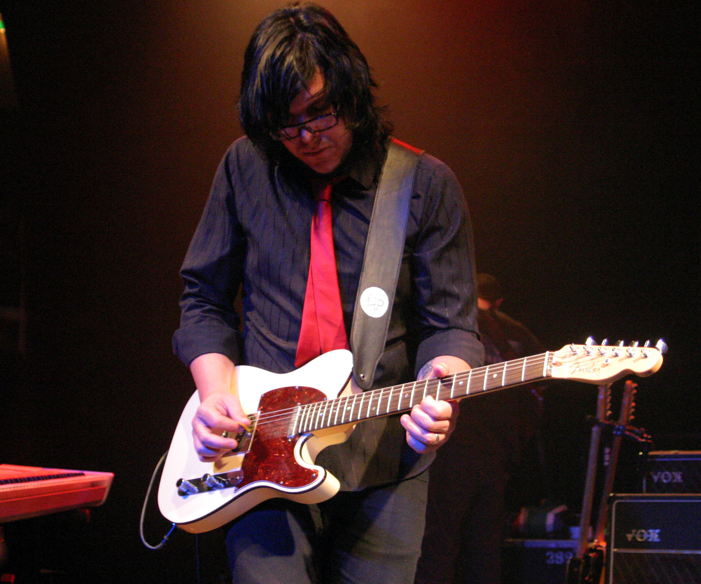 Paul Hodgson of the Parlotones at a concert in Cologne (Germany), 2010-10-26